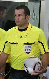 Pieter Vink (Dutch football referee) and his assistants.